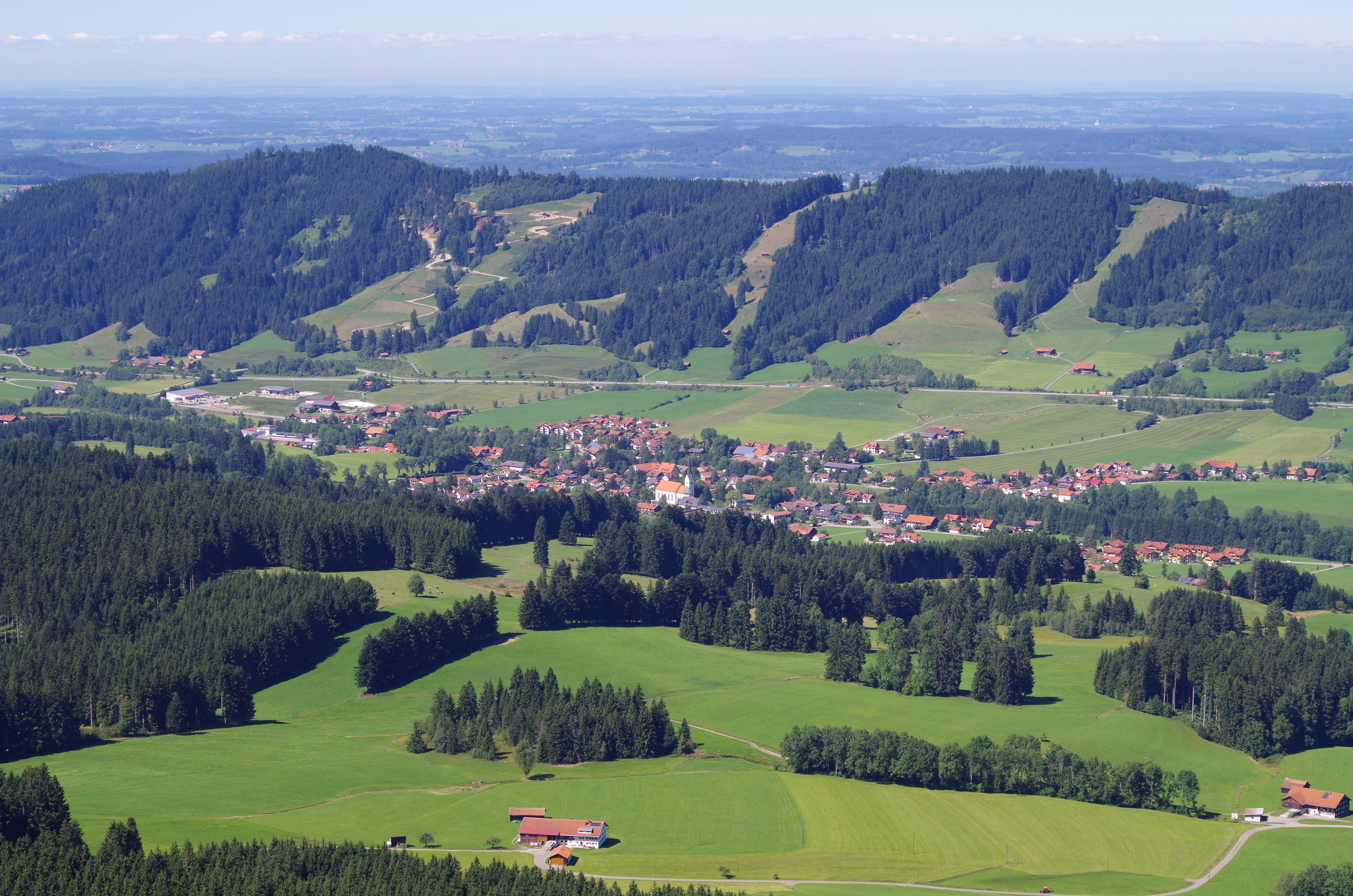 Picture of Weitnau (September 2013)